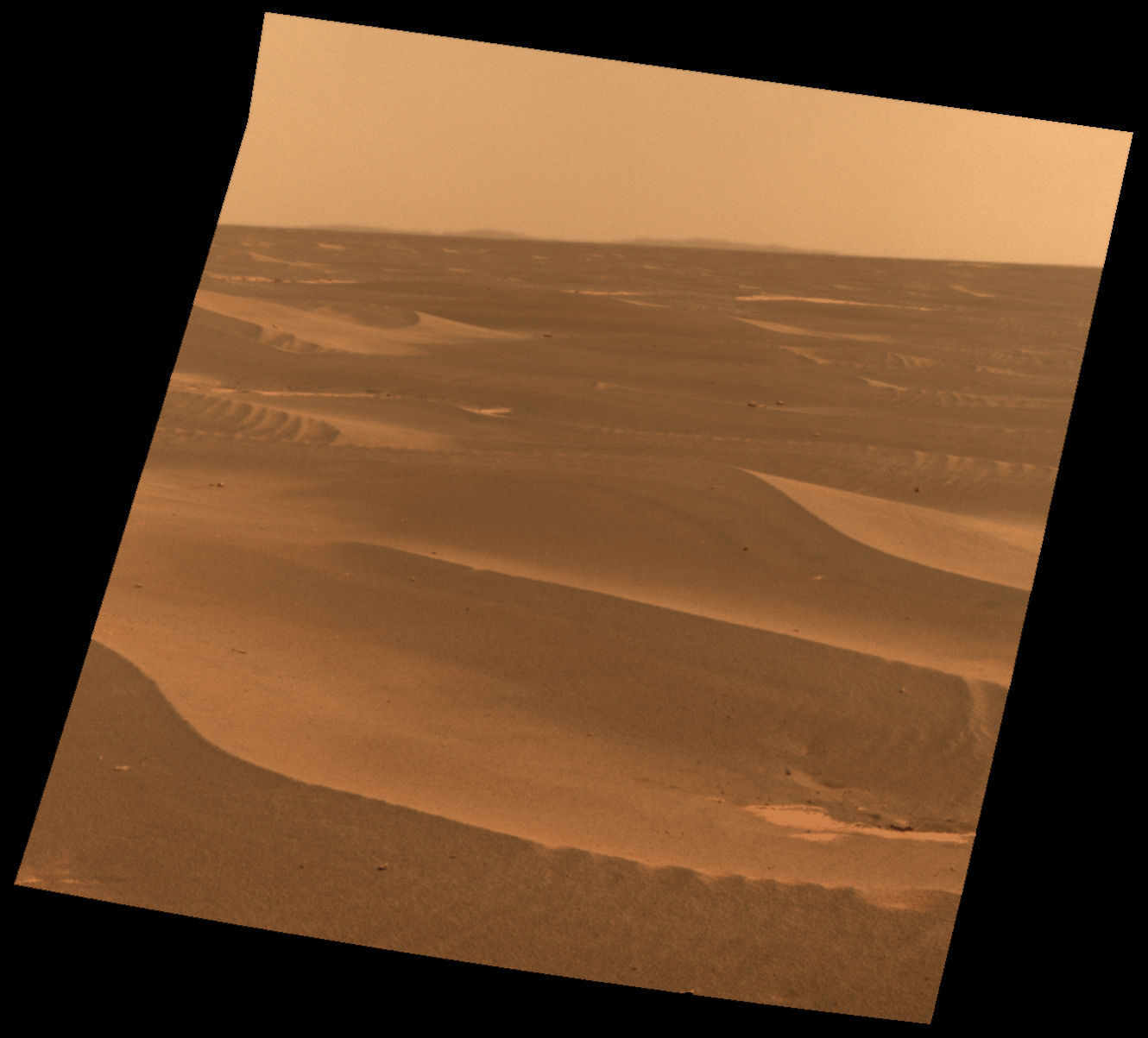 NASA's Mars Exploration Rover used its panoramic camera to record this view of the rim of a crater about 65 kilometers (40 miles) in the distance, on the southwestern horizon. This crater, Bopolu, is about 19 kilometers (12 miles) in diameter. The image was taken during the 2,179th Martian day, or sol, of Opportunity's mission on Mars (March 11, 2010), two days after the rover drove southward away from Concepcion crater, site of several weeks of investigation. Opportunity's long-term destination is Endeavour Crater, to the southeast and closer than Bopolu. The intended route heads south before turning east in order to bypass potentially hazardous sand ripples to the east, larger than the ripples in the foreground of this image. This approximately true-color view combines three exposures taken through filters admitting wavelengths of 750 nanometers, 530 nanometers and 480 nanometers. Image Credit: NASA/JPL-Caltech/Cornell University